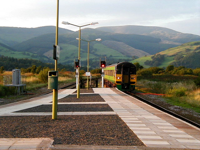 Dovey Junction Station, near to Cwrt, Gwynedd, Great Britain. A view from the northern end of the station with an Aberystwyth train approaching.